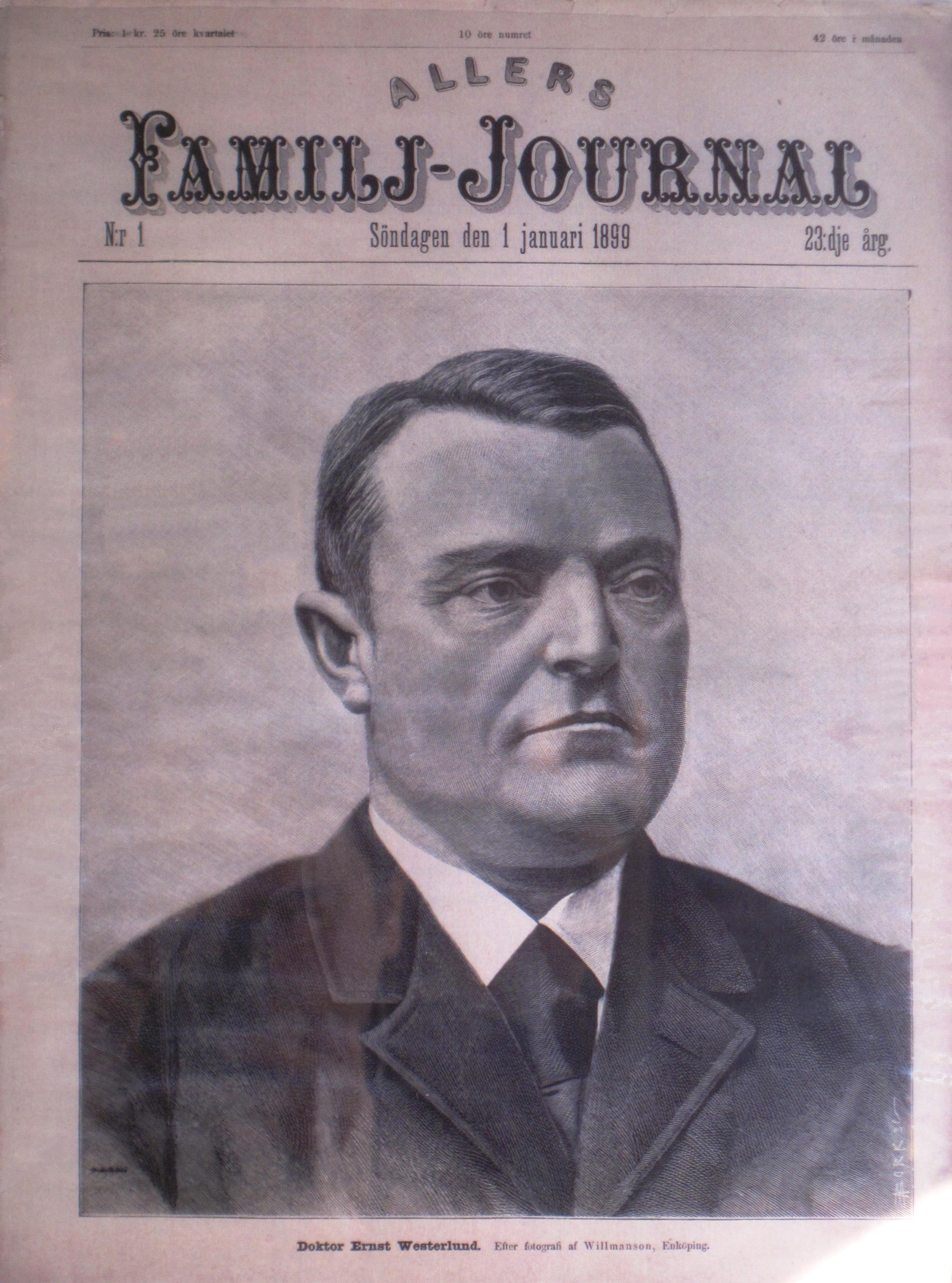 Swedish physician Ernst Westerlund on the cover of Allers Familj-Journal vol. 23, issue 1, 1899. Engraving signed A Bork sc [scilicet].